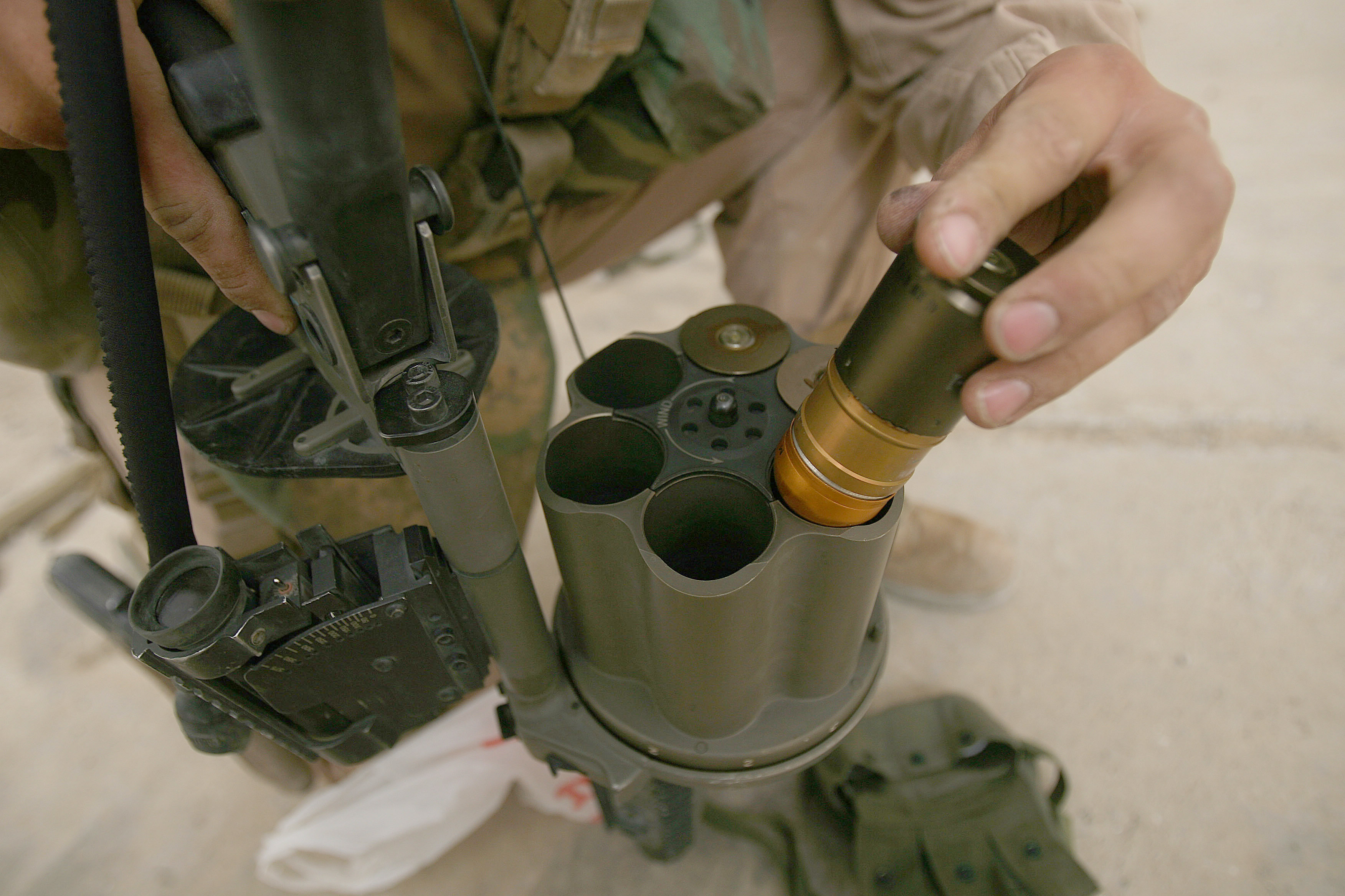 A Marine from 1st Battalion, 24th Marine Regiment loads 40 mm grenades during a training exercise at Camp Fallujah's Eagle Range. Marines from the battalion arrived in Fallujah recently, taking responsibility of Fallujah from 1st Battalion, 25th Marine Regiment. Marines from 1st Battalion, 24th Marine Regiment are serving a seven-month deployment with Regimental Combat Team 5. Photo by: Gunnery Sgt. Mark Oliva Photo ID: 20061017124443 Submitting Unit: 1st Marine Division